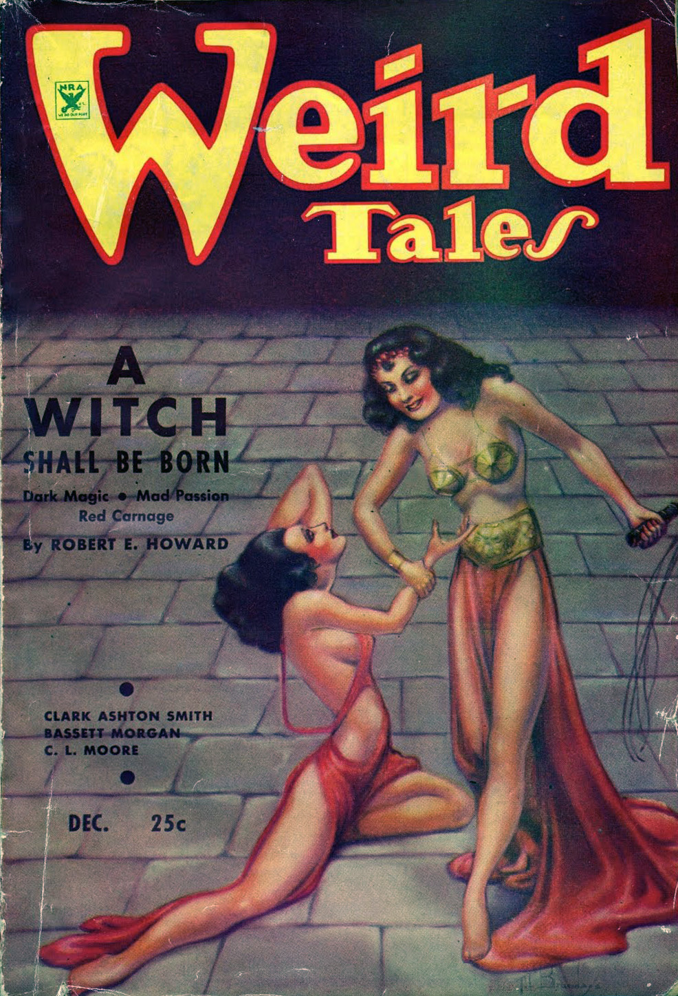 Cover of Weird Tales (December 1934): The feature story is Robert E. Howard's "A Witch Shall be Born".